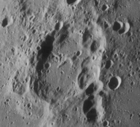 Oblique view of Lamé (crater), on the moon.